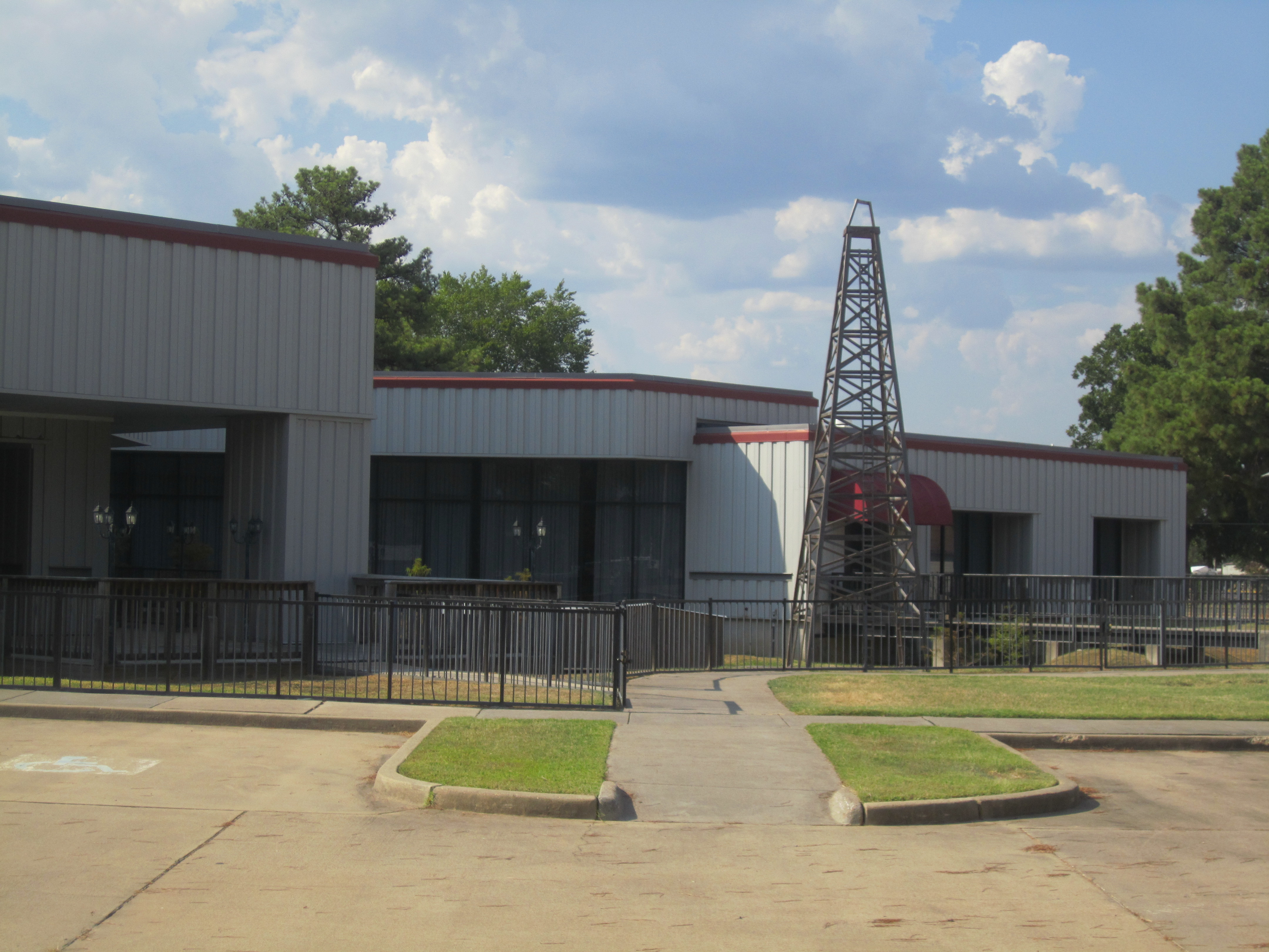 I took photo of Louisiana State Oil and Gas Museum in Oil City, LA, with Canon camera.